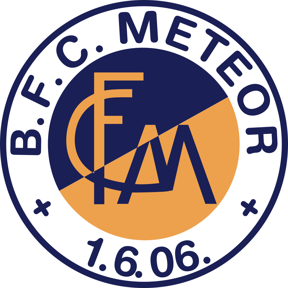 Historic logo of german football club BFC Meteor 06 (used 1931)